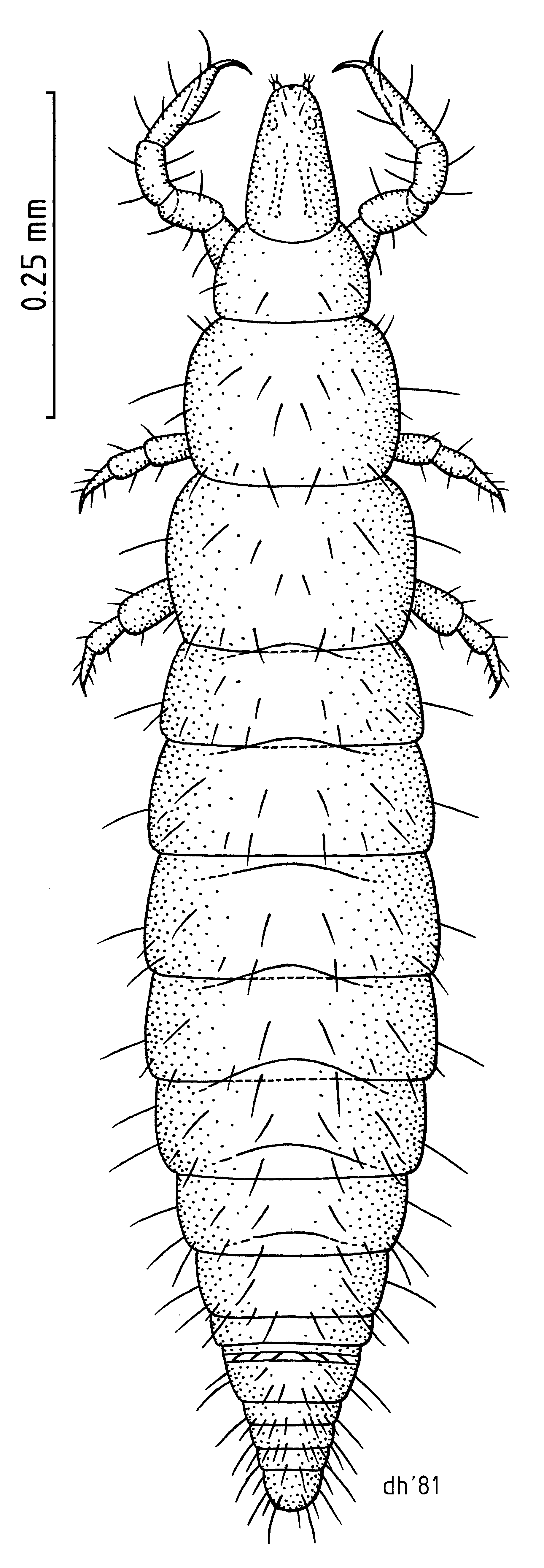 (Protura: Acerentomidae) Amphientulus zelandicus illustrated by Des Helmore.